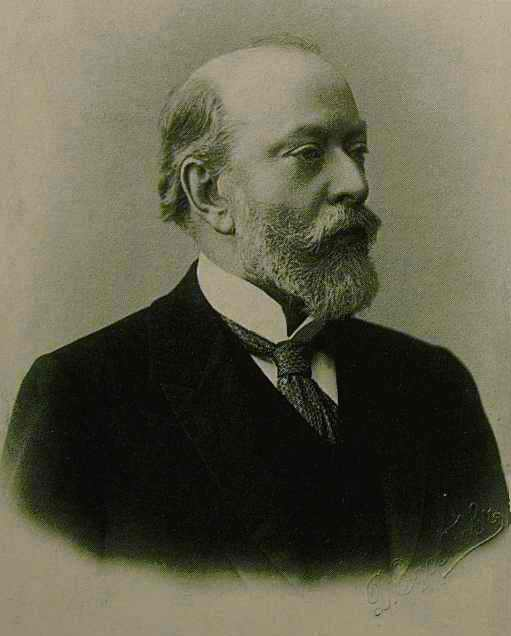 Schwanebach Piotr Khristianovitsch (1848-1908). Ministr of Stats Kontrol of Russia (1906-1907)